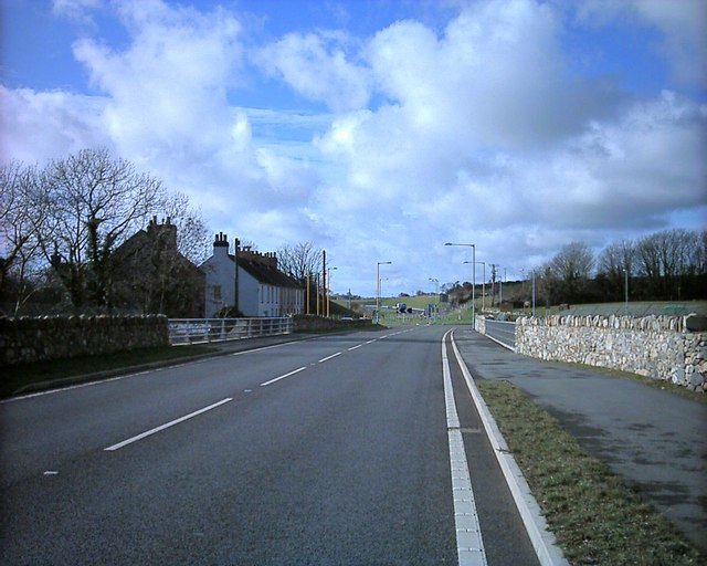 New bridge over Afon Wen at Afonwen A new bridge over the Afon Wen at Ffrydd-lwyd (Ffriwlwyd) on the improved A497 between Llanystumdwy and Abererch, constructed between 2004 and 2006.